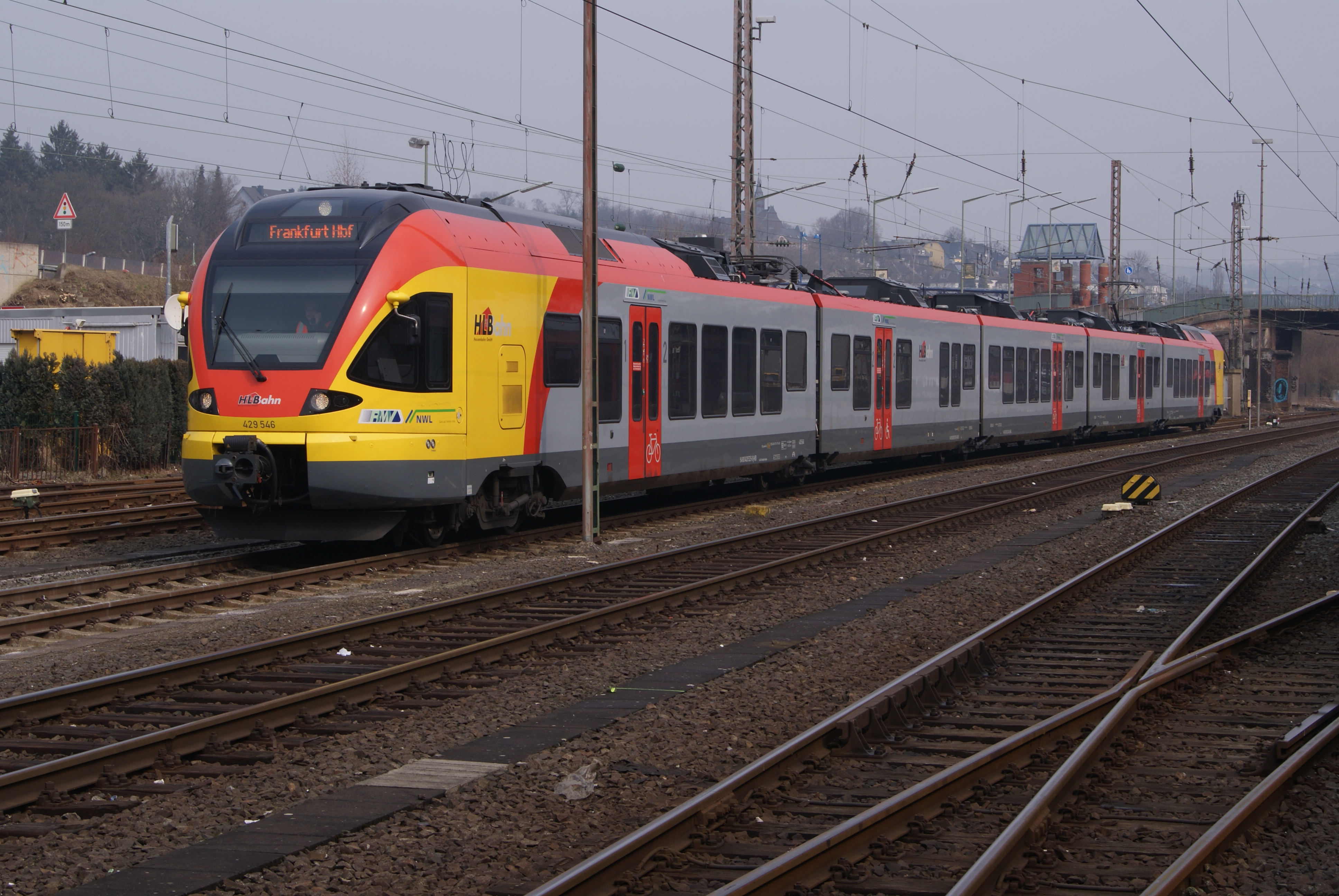 Stadler Flirt 429 546 of Hessische Landesbahn to Frankfurt at Siegen train station.